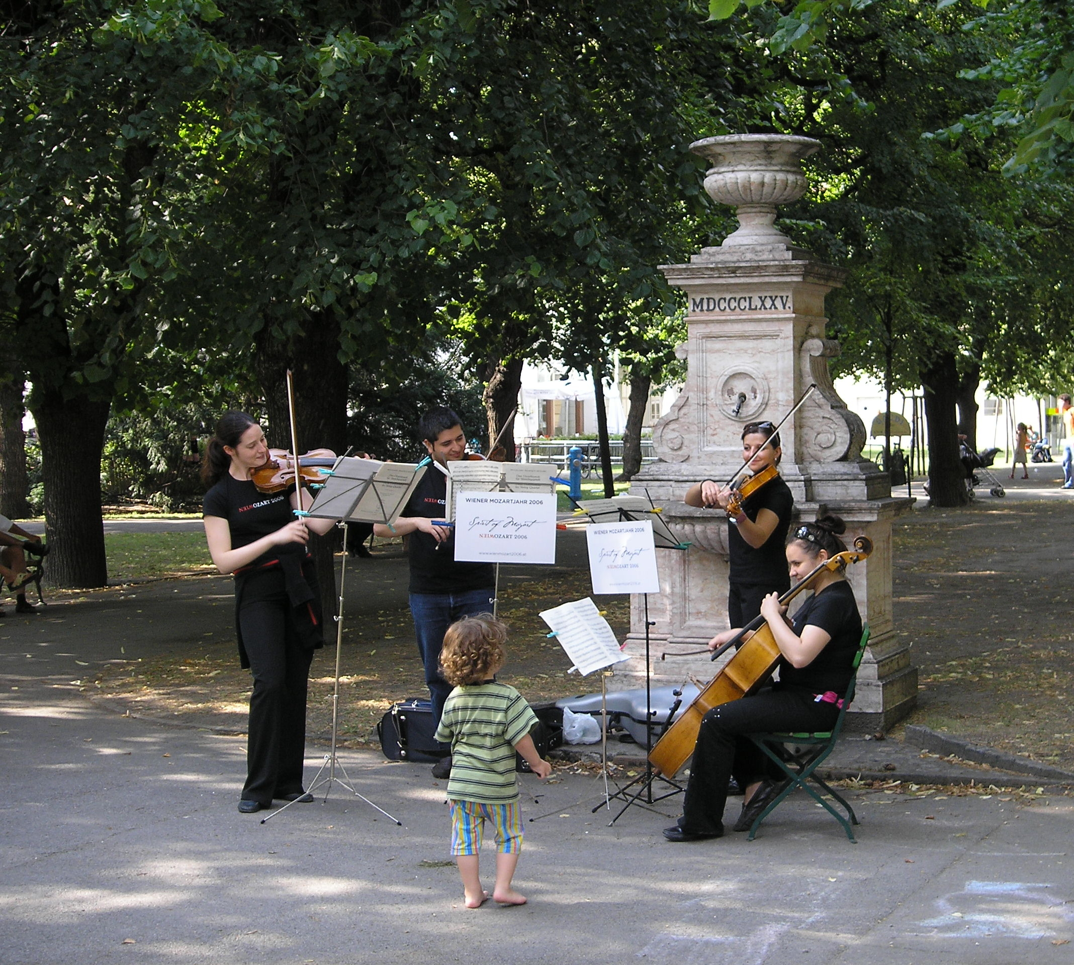 String quartet playing for the Mozart year in the Campus of the University of Vienna.